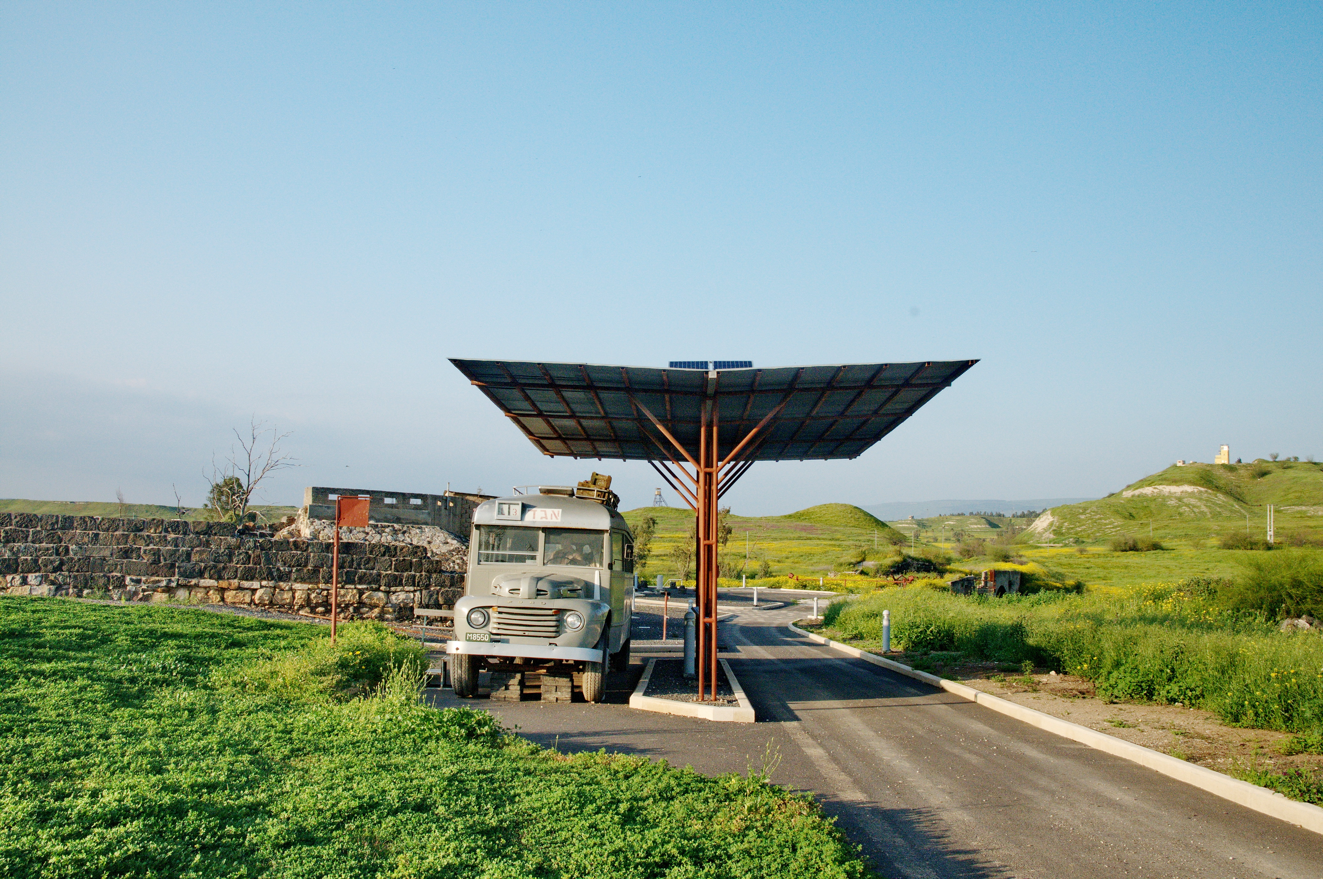 Old Gesher and Naharayim Farm in northern Israel